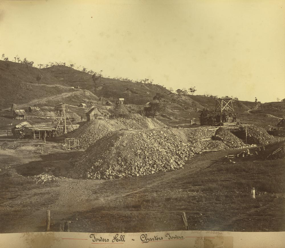 Gold diggings on Towers Hill outside Charters Towers.